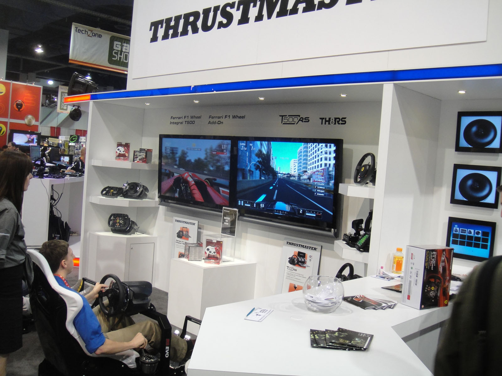 photo 2012 Pop Culture Geek taken by Doug Kline If you're interested in higher resolution versions of my images, contact me via my profile page.